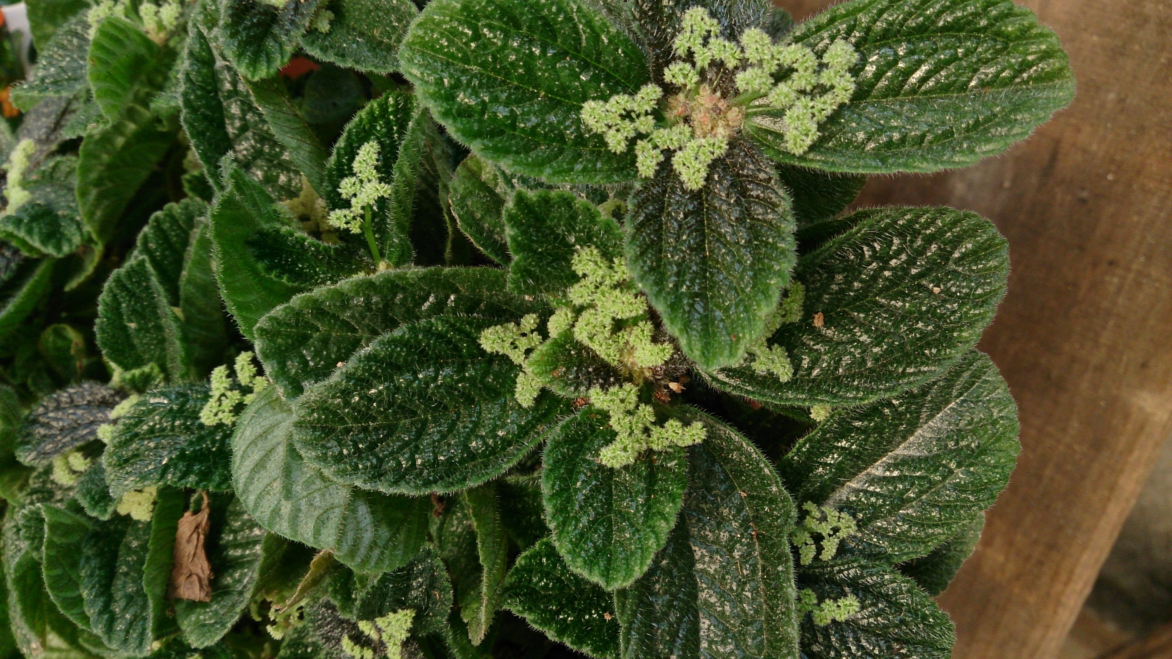 Pilea involucrata. Common name: Friendship Plant.